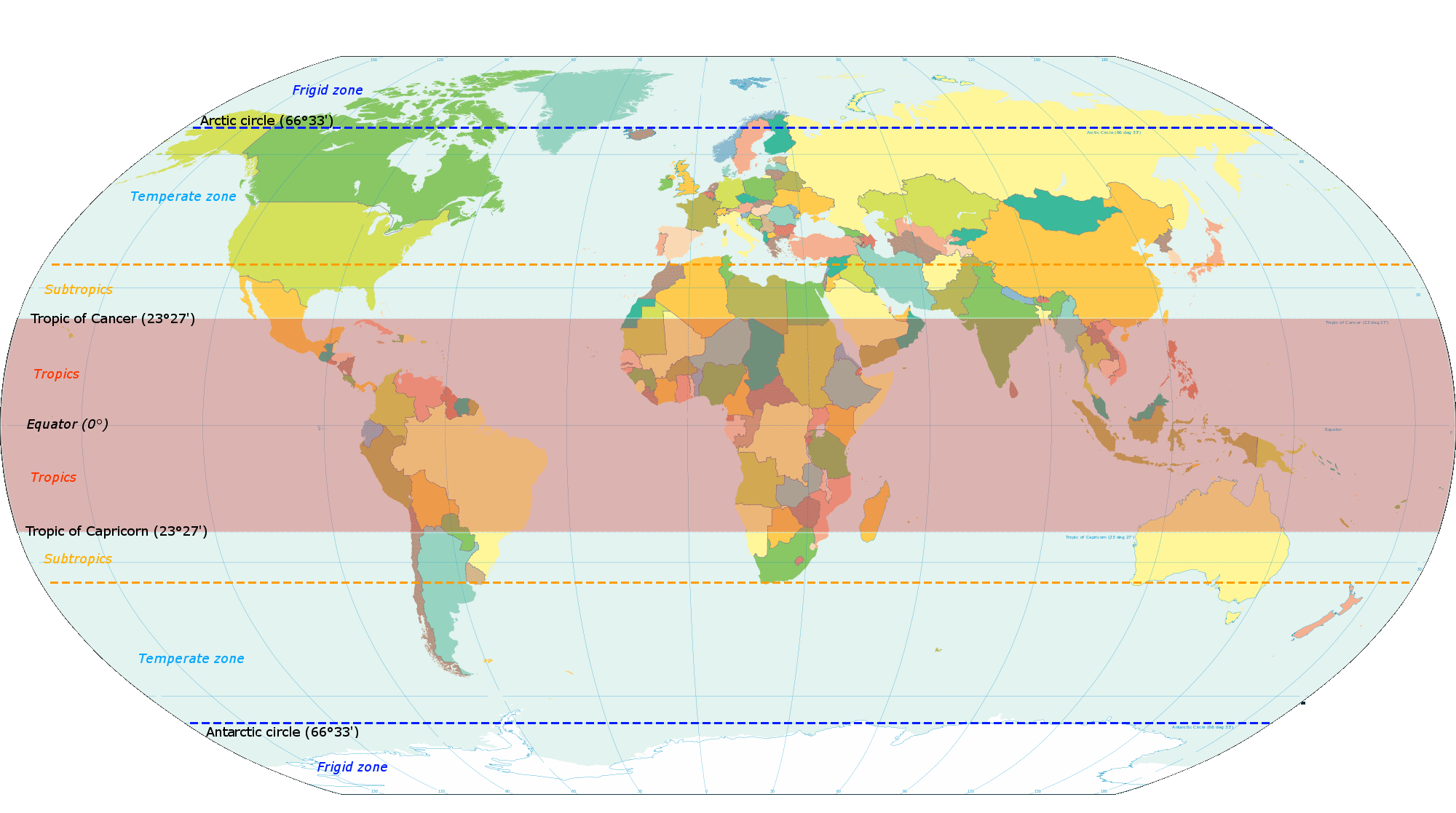 Map based on File:World map torrid.svg, now indicating subtropics. Map was made by closely examining this map to get latitude accurately correct.